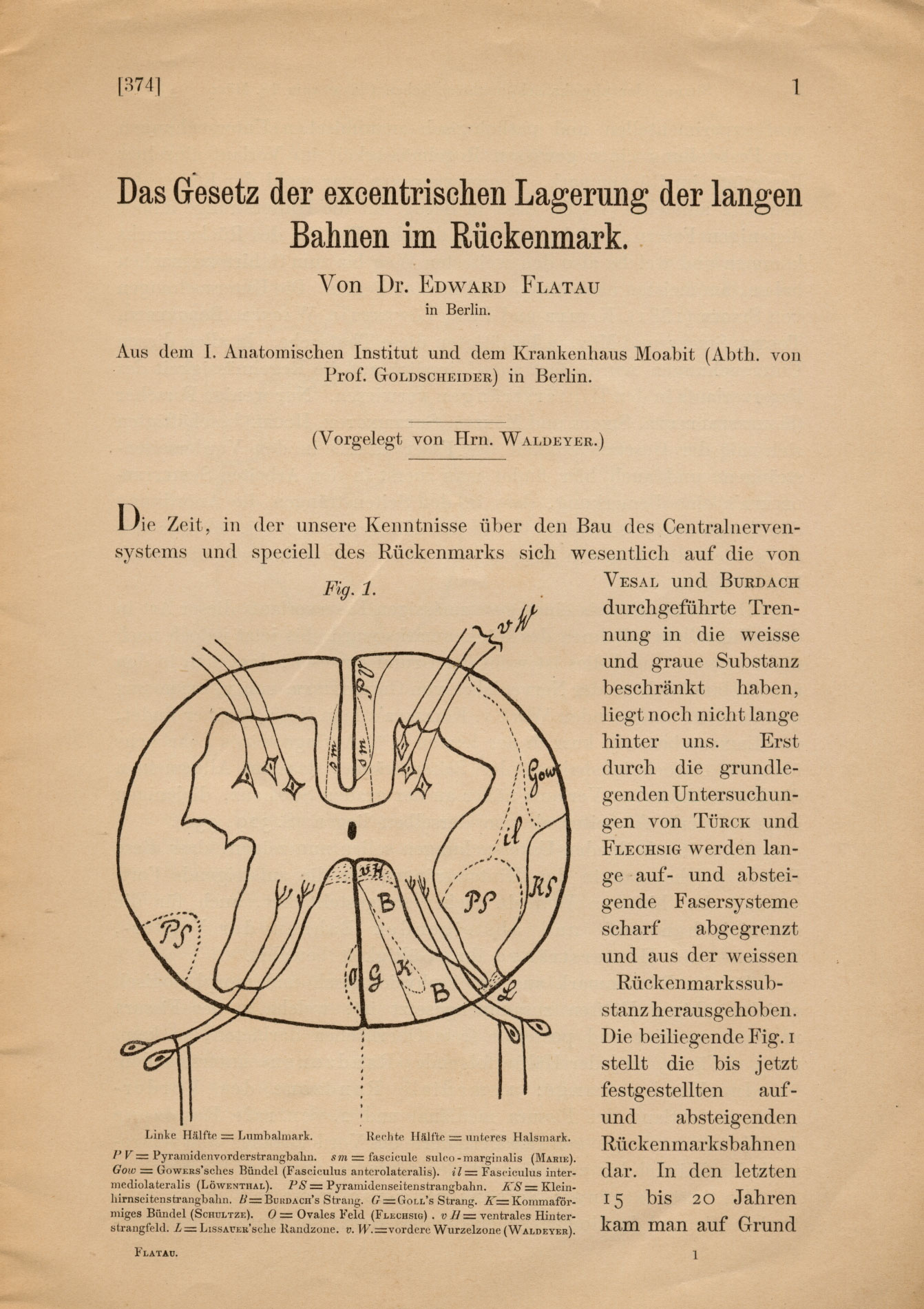 First page of "Flatau's Law" related that greater the length of the fibres in the spinal cord the closer they are situated to the periphery. german publication (Flatau E. Das Gesetz der excentrischen Lagerung der langen Bahnen im Ruckenmark. Zeitschrift fur klinische Medizin 33, 1897)